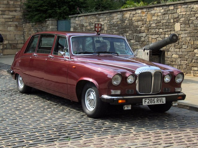 Castle Hill, Lincoln - Vehicle A 1989 Daimler DS 420 4.2L Limousine powered by a Jaguar Group 4.2 litre XK engine. This car was used as Lincoln's Mayoral transport from new in 1989 to 1996 and registered as JFE 1. The registration plate has been retained for the current and future Mayoral cars. The last DS 420 was built in 1994 and the last but one was sold to the Queen Mother.